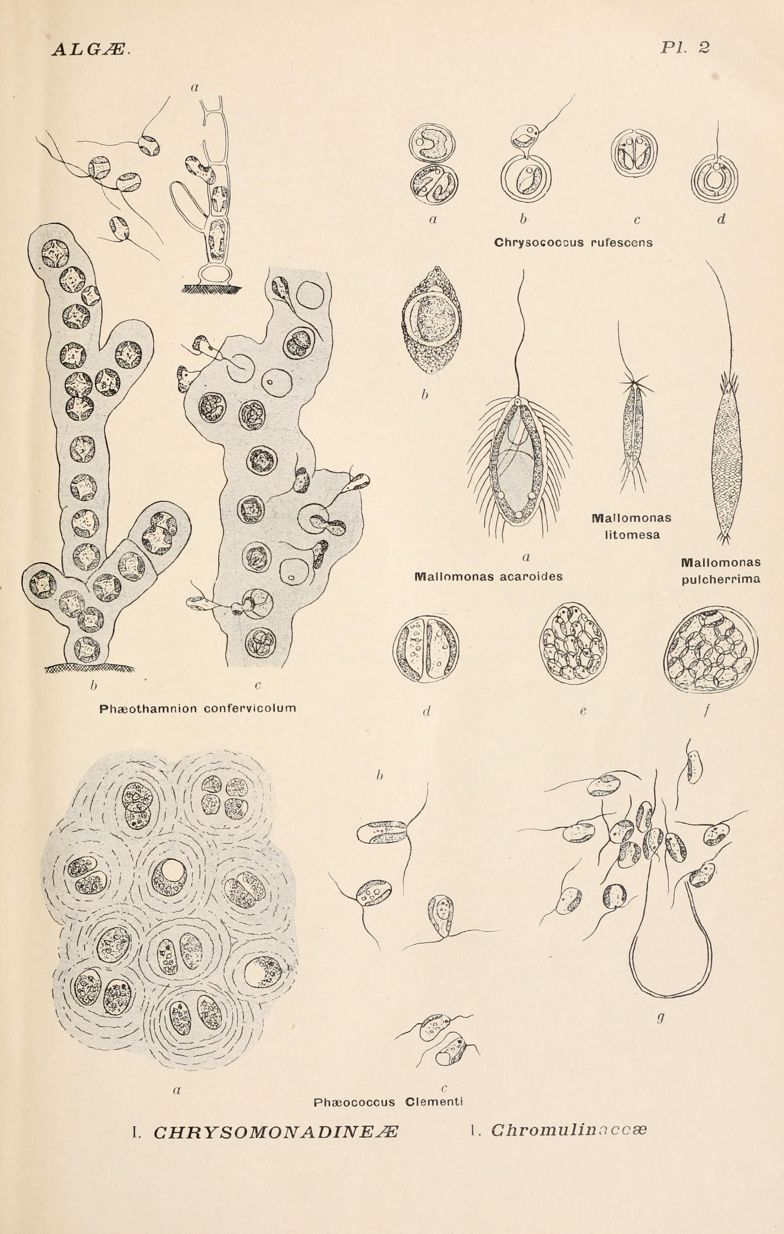 Title: Album général des diatomées marines, d'eau douce ou fossiles : album représentant tous les genres de diatomées et leurs principales espèces Year: (190-?) ((190s) Authors: Coupin, Henri, b. 1868 Subjects: Diatoms Publisher: Paris : H. Coupin Text Appearing Before Image: ALG^. PL 2 Text Appearing After Image: Phaeococcus démenti I. CHRYSOMONADINE^ Chromulinnccœ